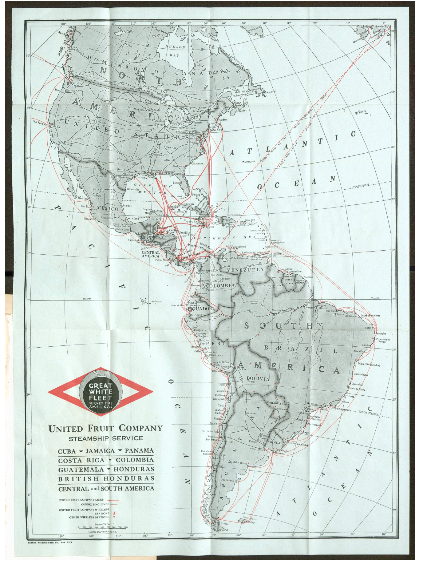 Map of the routes of United Fruit Company steam ship service